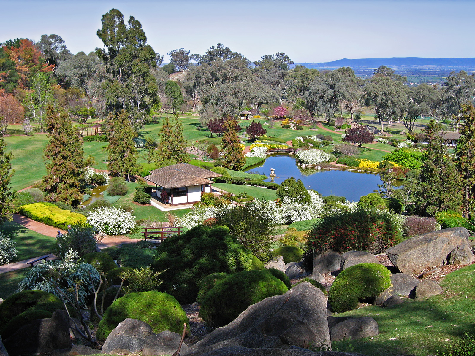 View from lookout hill of Japanese Gardens, Cowra, NSW, Australia and across plains to hills in distance